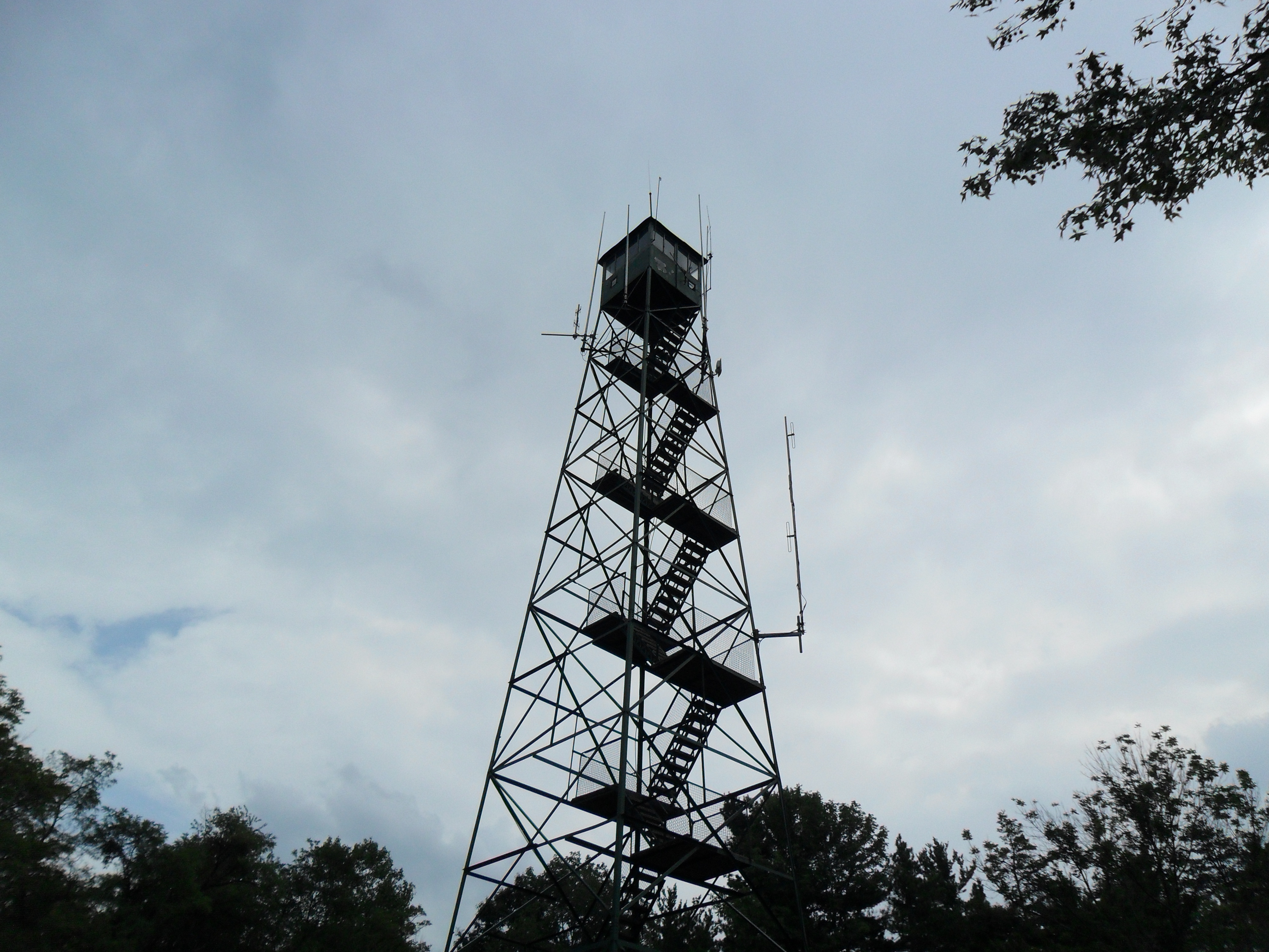 Built in the 1930s, this fire tower stands on top of Weed Patch Hill